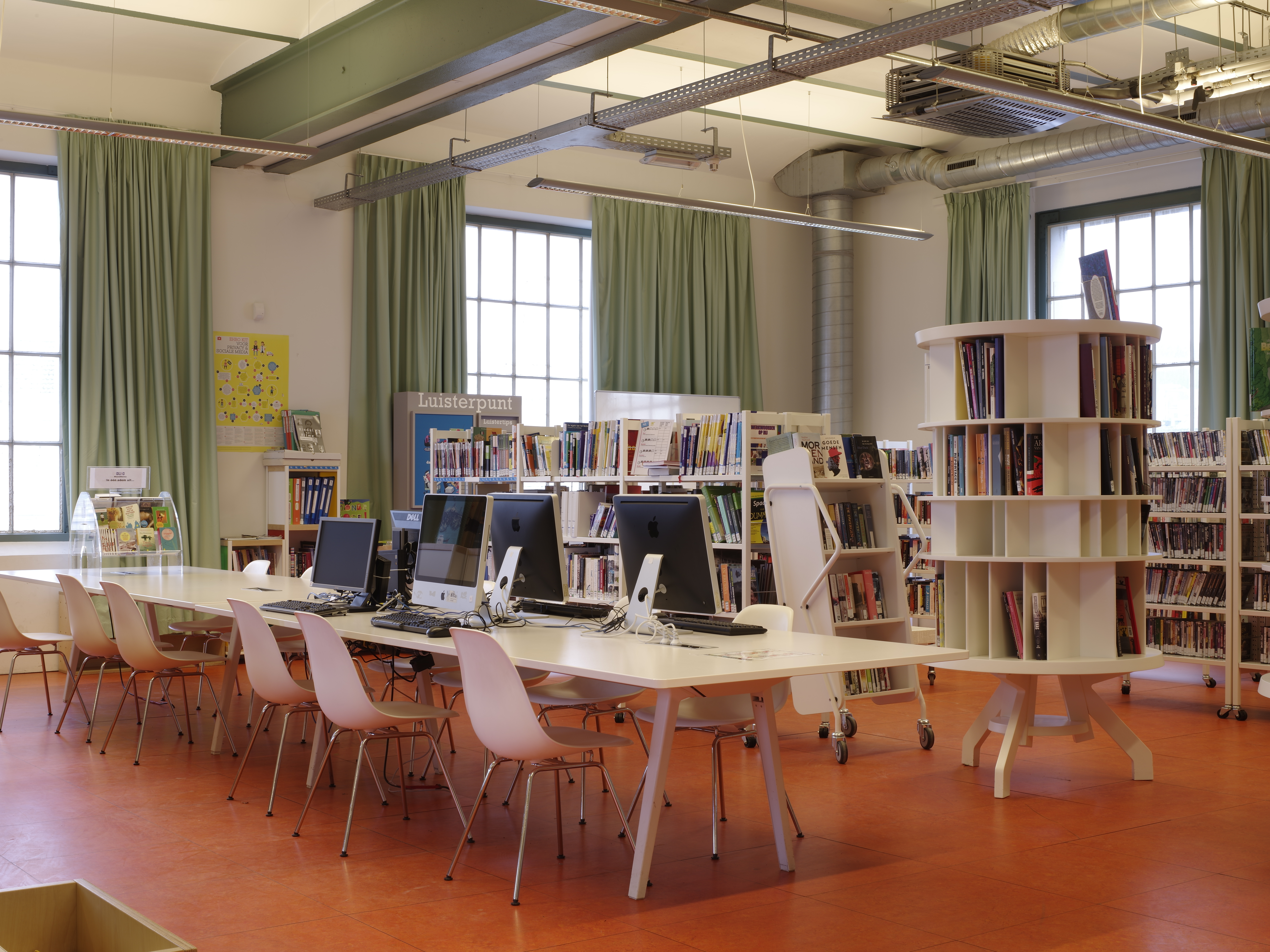 BLI:B, public library Vorst - Forest, at avenue Van Volxem 364 in 1190 Brussels (Forest).